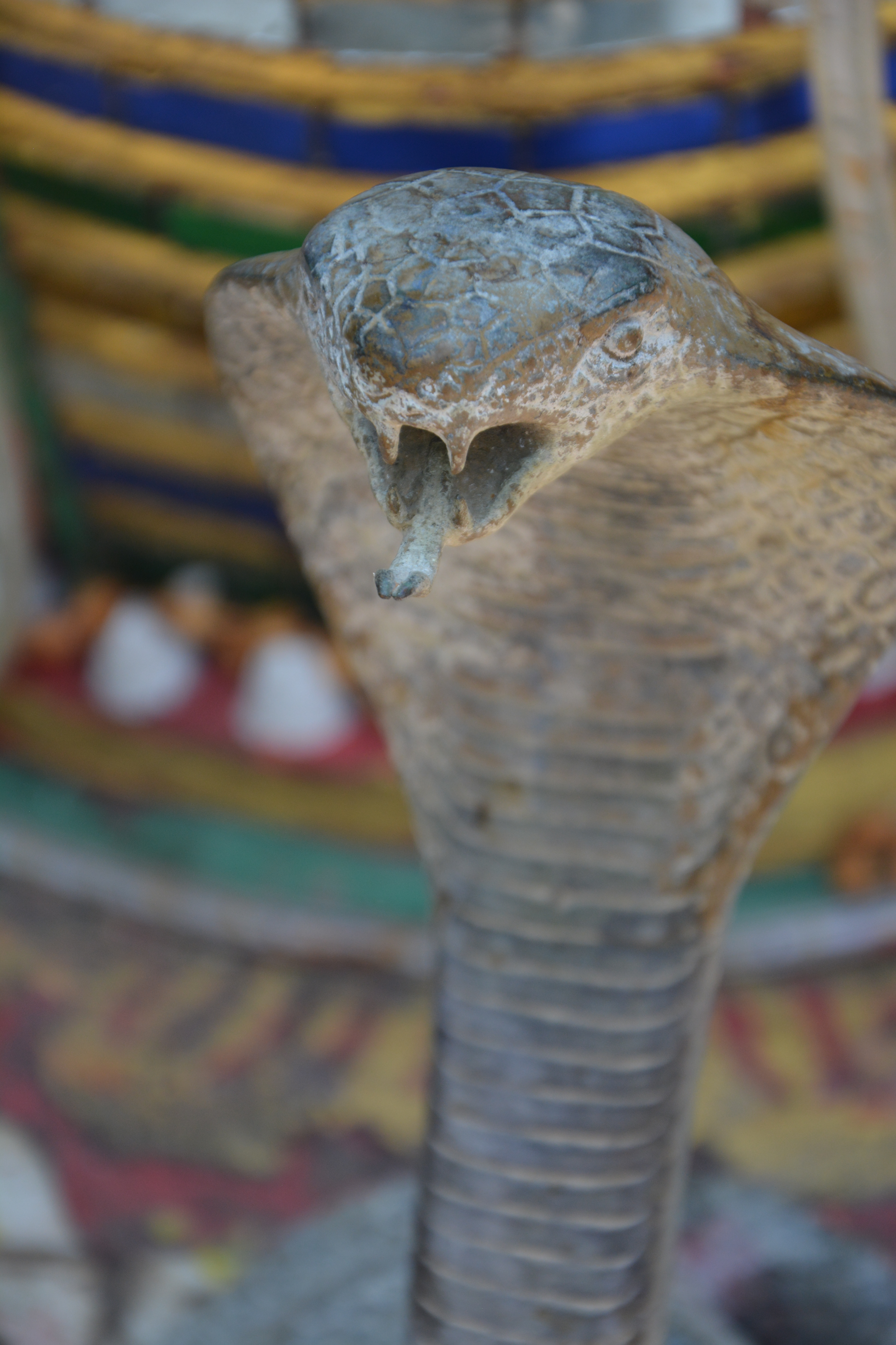 Stone snake at Wat Phra That Doi Suthep, Chiang Mai, Thailand